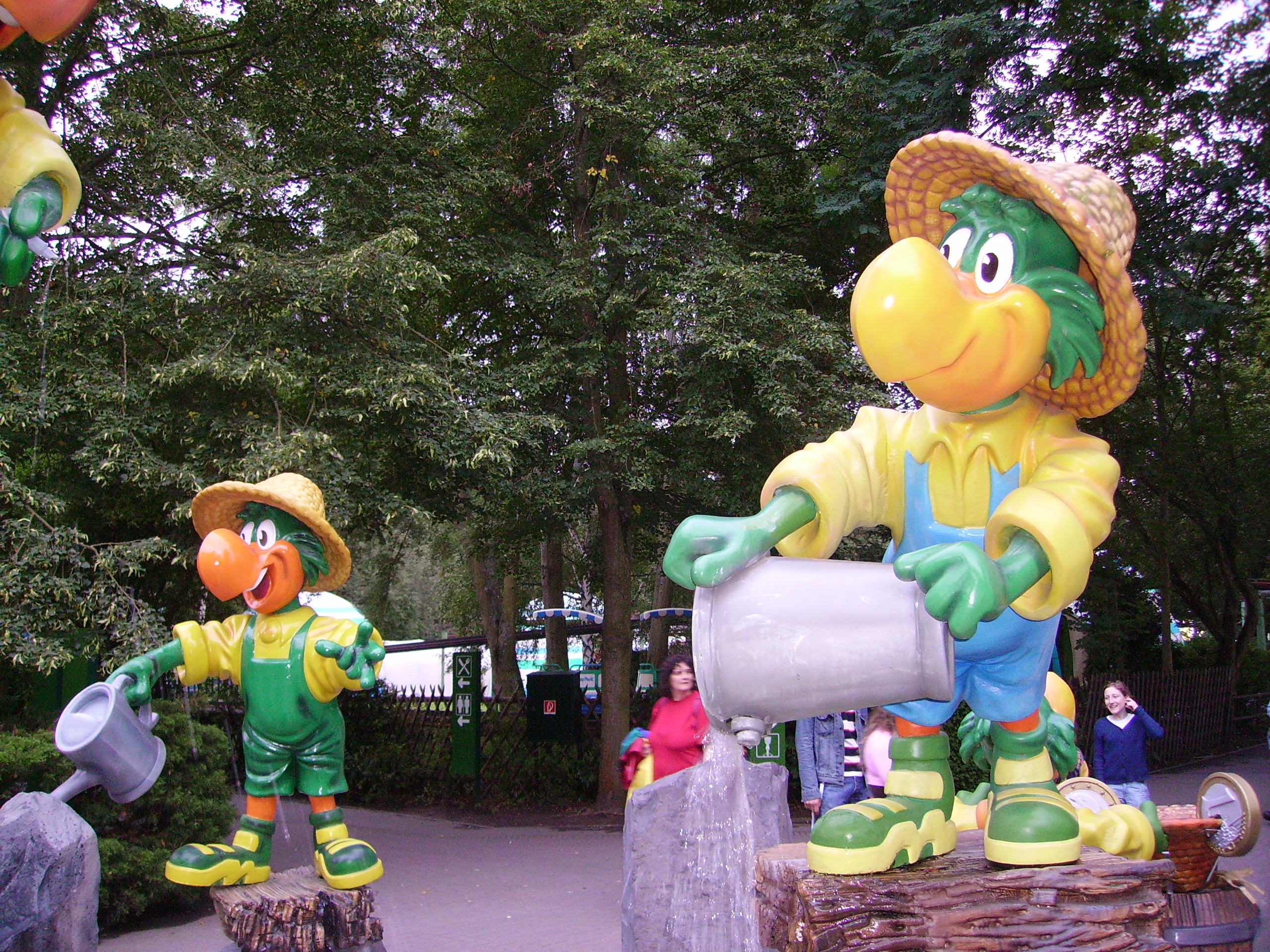 Holiday Park near Haßloch, Germany